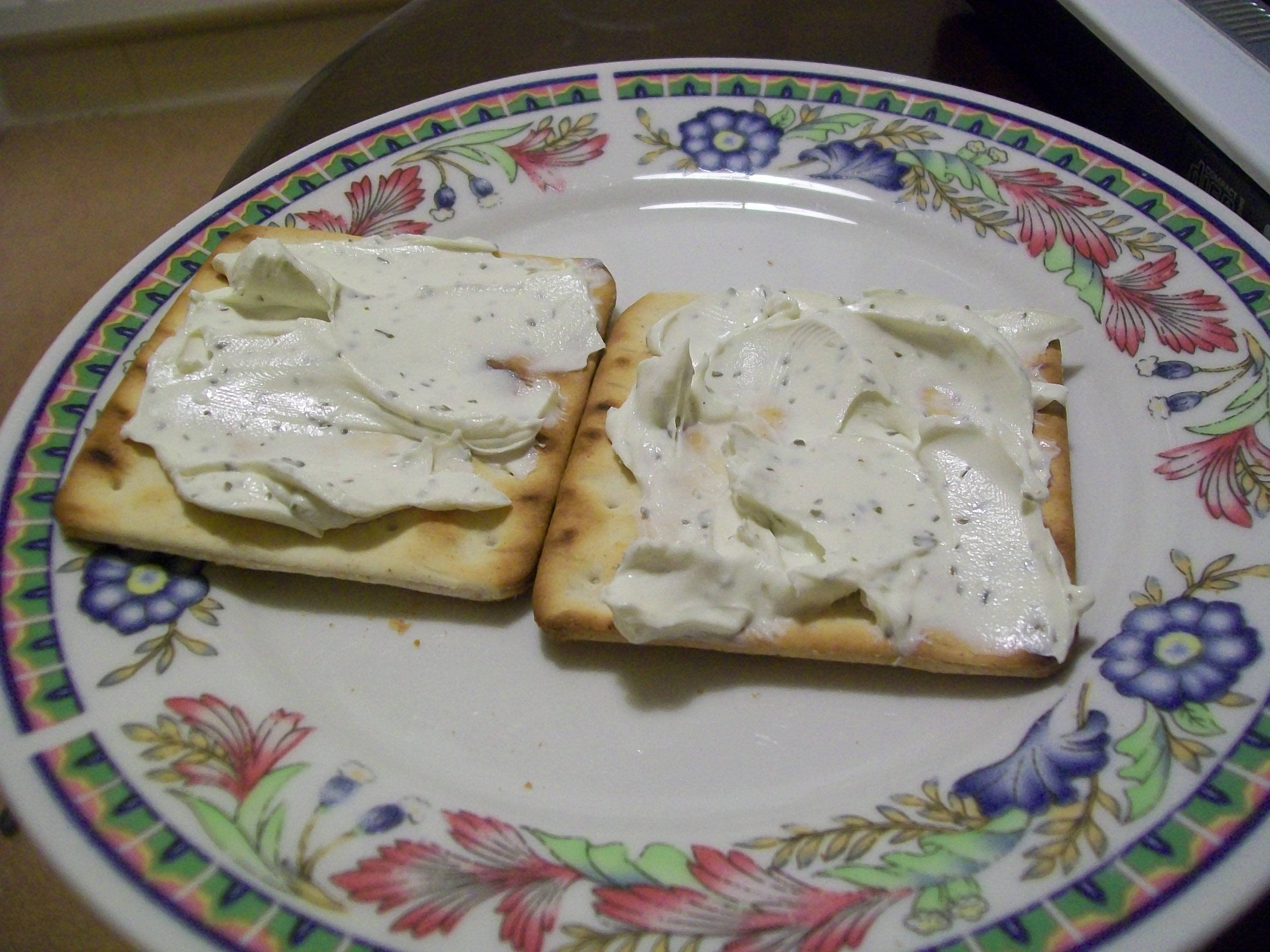 Cream crackers are flat, usually square savoury biscuits. Here, cream crackers are served with garlic and herb cheese spread.